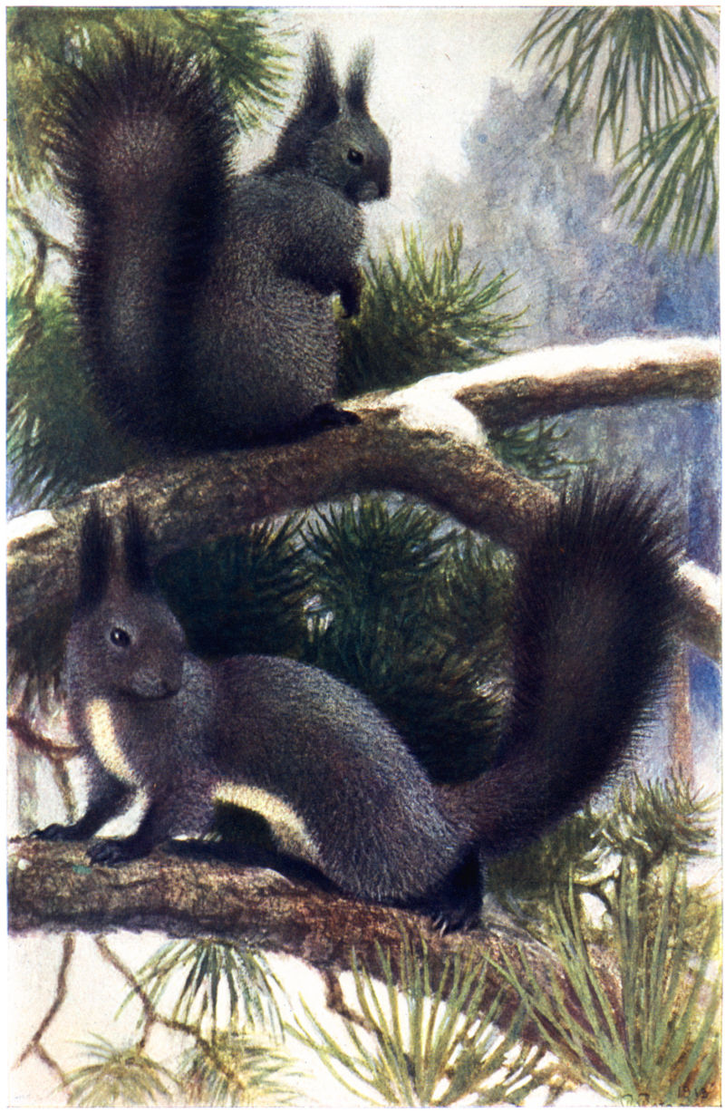 Eurasian red squirrel (Sciurus vulgaris) Original caption: "Feh." Size: 4.9 × 7.5 in² (12.4 × 19.0 cm²)